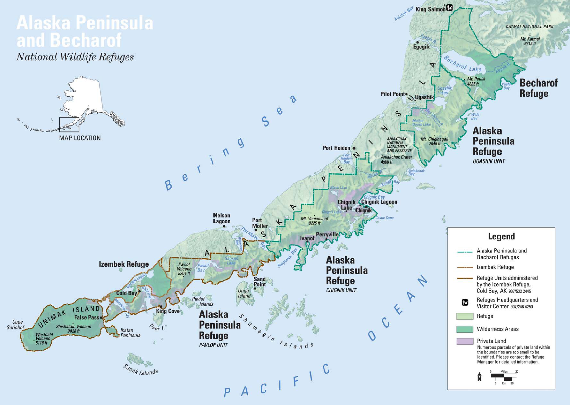 Map of Alaska Peninsula National Wildlife Refuge